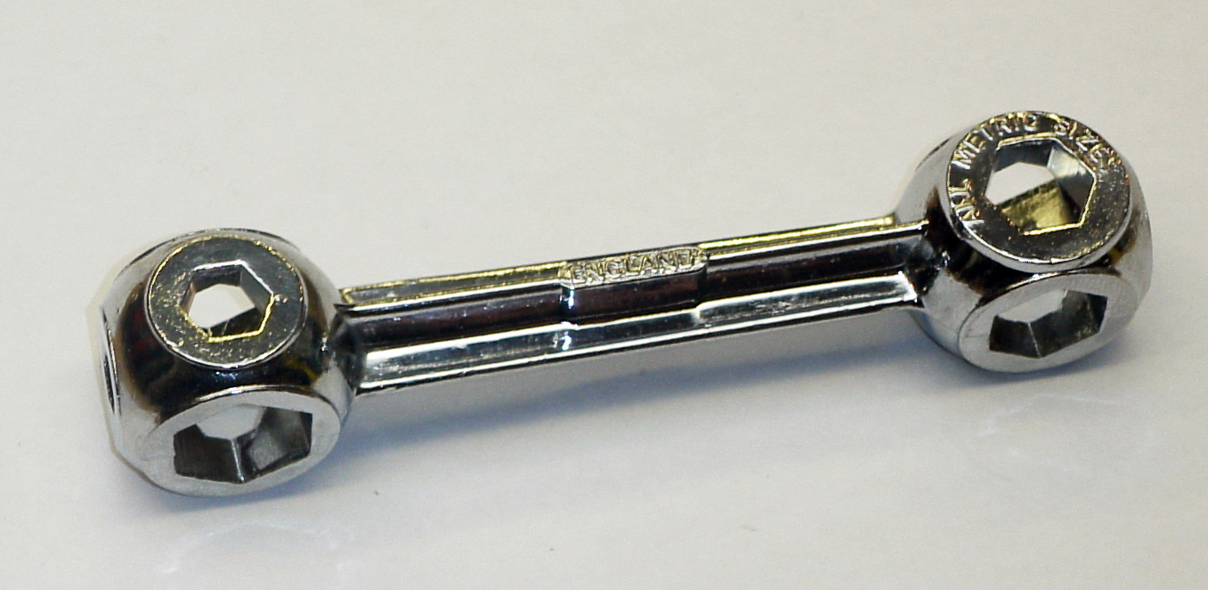 Dumbbell spanner / dogbone wrench